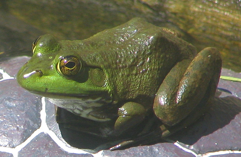 Photograph of the front side of the American Bullfrogen (Rana catesbeiana en ), female specimen (relative small tympanic membrane).